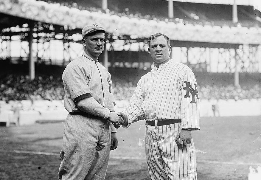 New York Highlanders player/manager Harry Wolverton (left) with New York Giants manager John McGraw at the Polo Grounds in New York City.